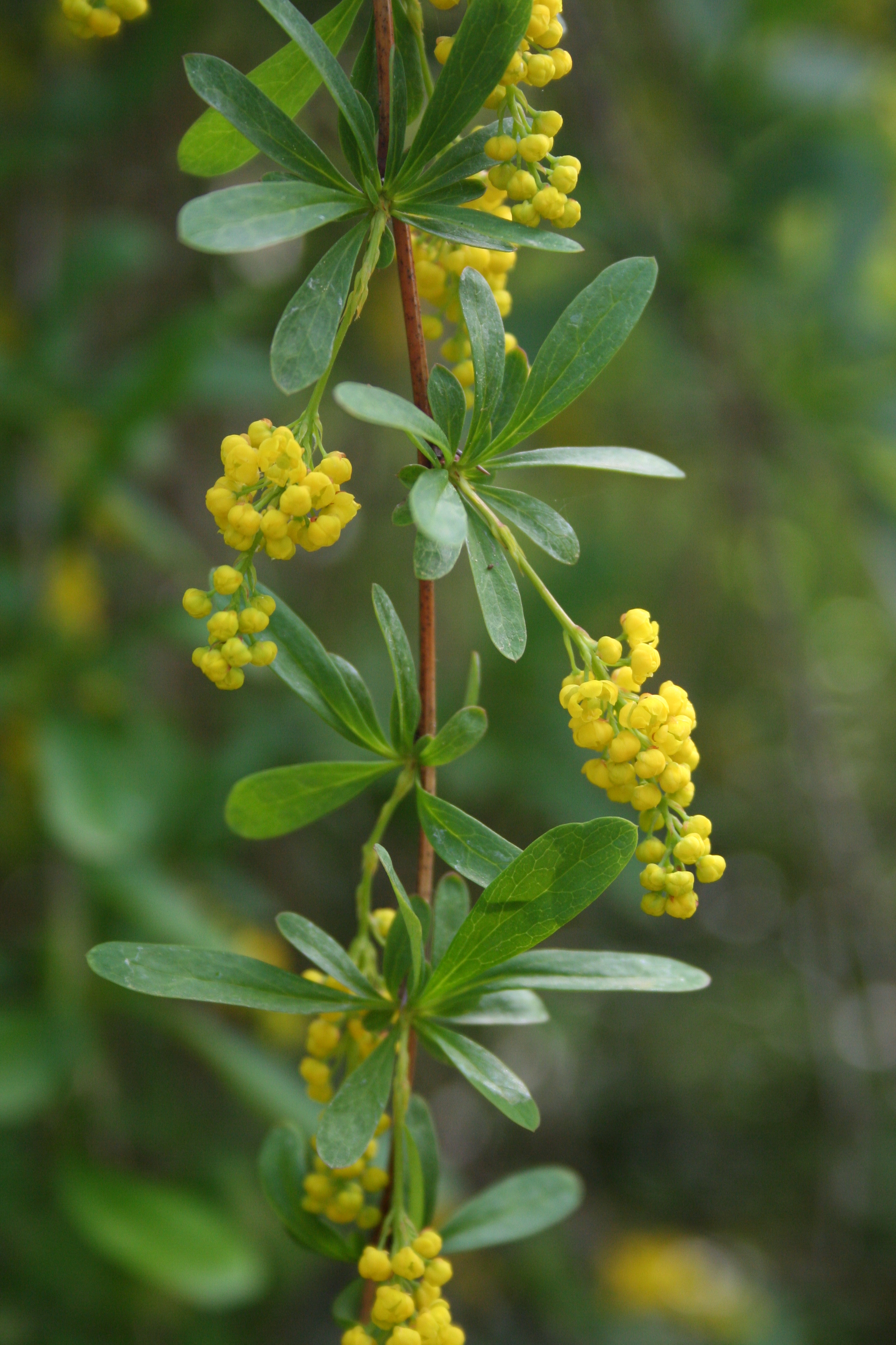 Berberis vernae, Bot. Garden of the University of Frankfurt